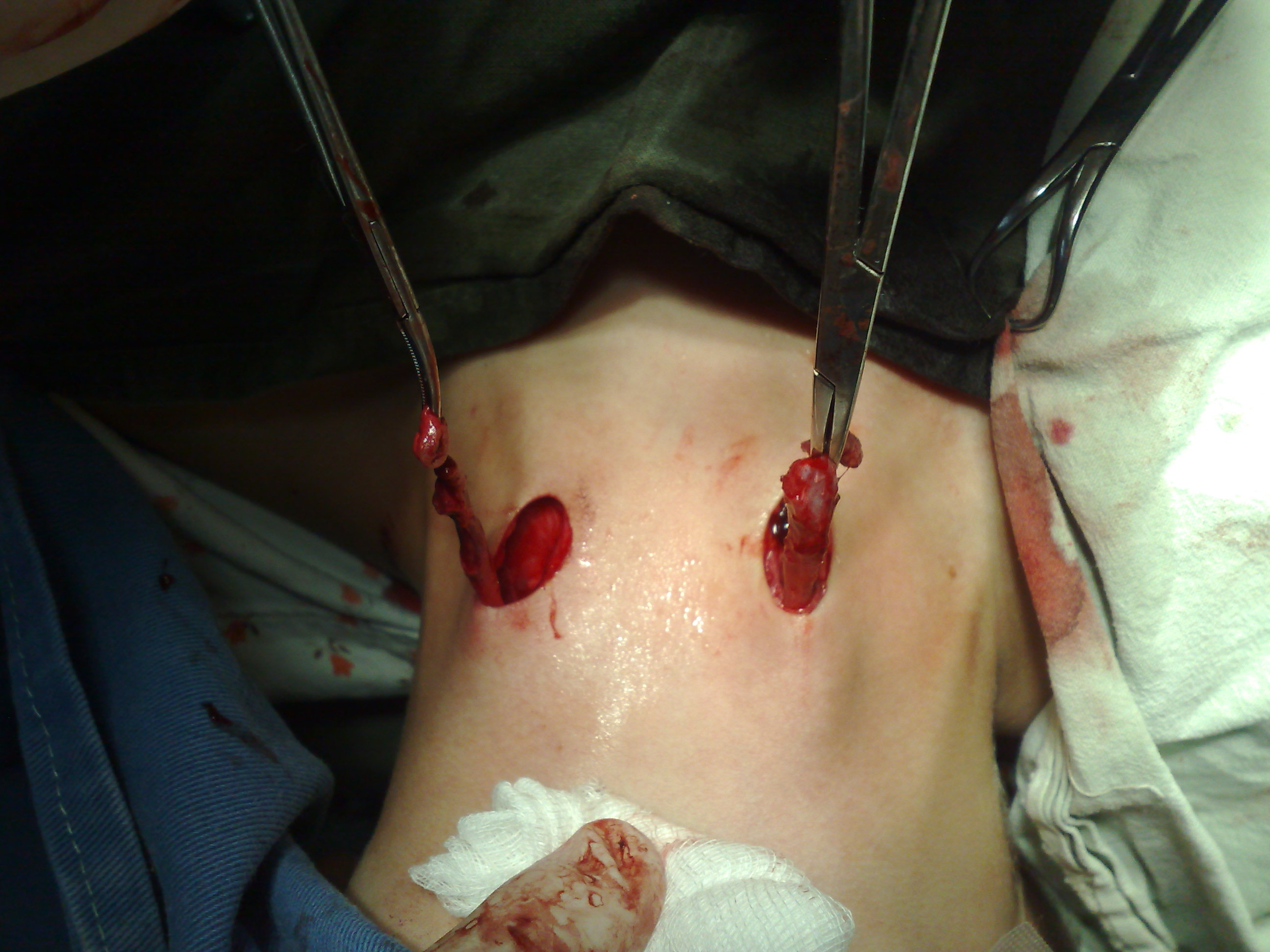 Bilateral Branchial Cleft Sinus intraoperative